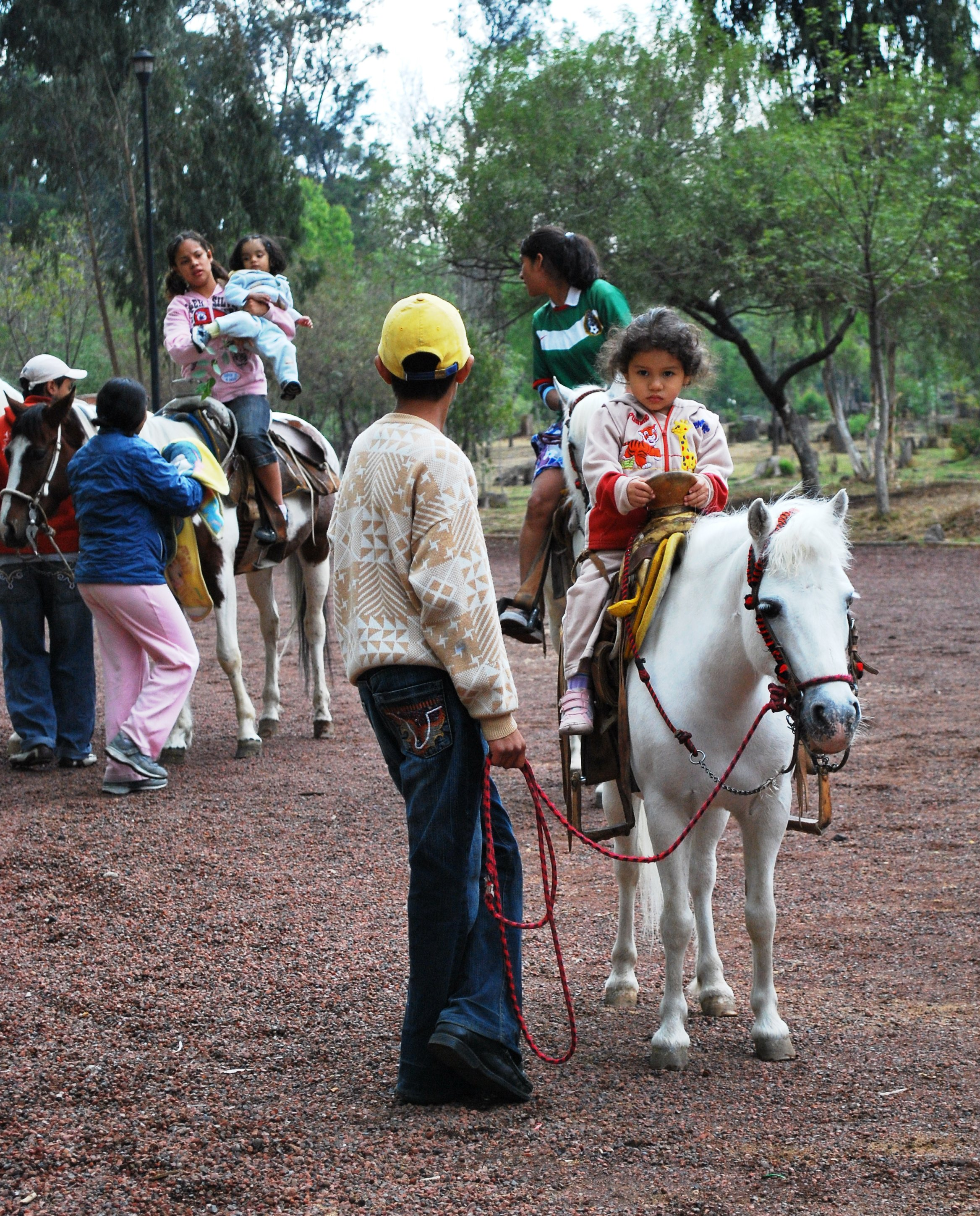 Girls riding on ponies — in the Bosque de Nativitas Park, Xochimilco, in Mexico City.